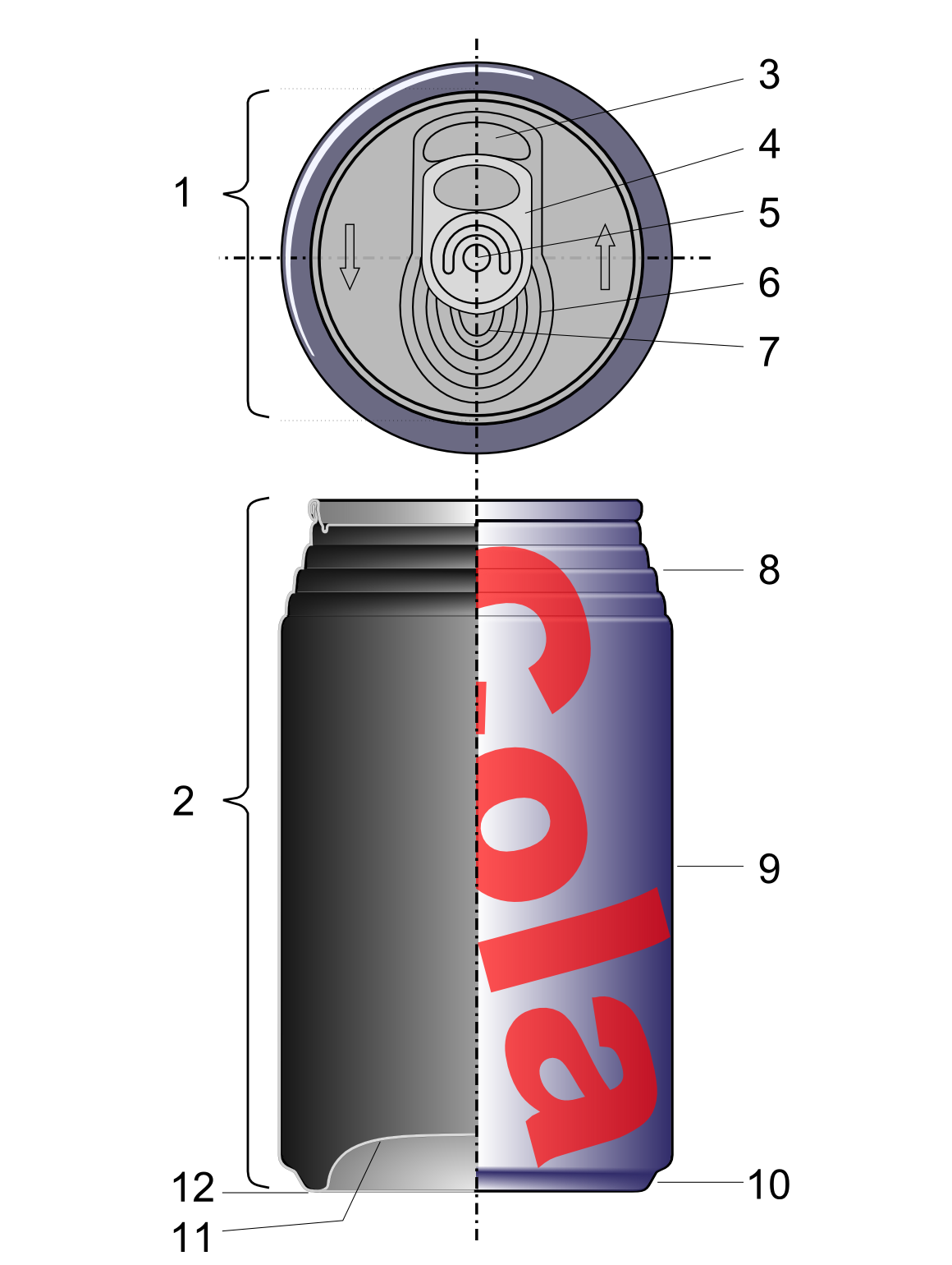 Aluminium can model without text